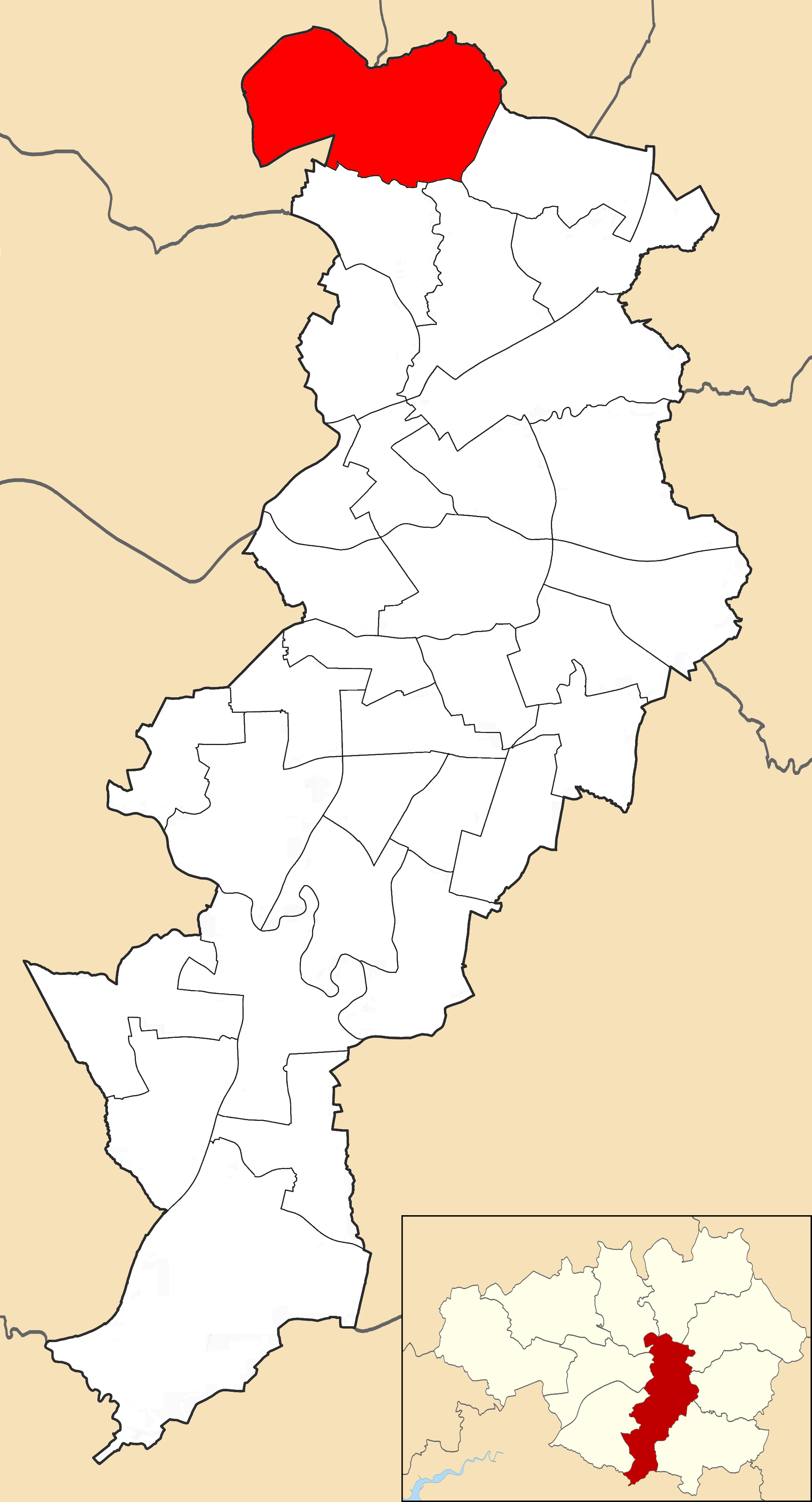 Map showing location of Higher Blackley ward within Manchester City Council.